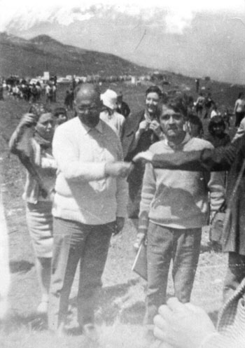 Danilo Dolci (left) and Giuseppe Impastato (right), the Anti-Mafia activist that was killed in 1979, in March of protest and peace organized by Danilo Dolci on March 1967.